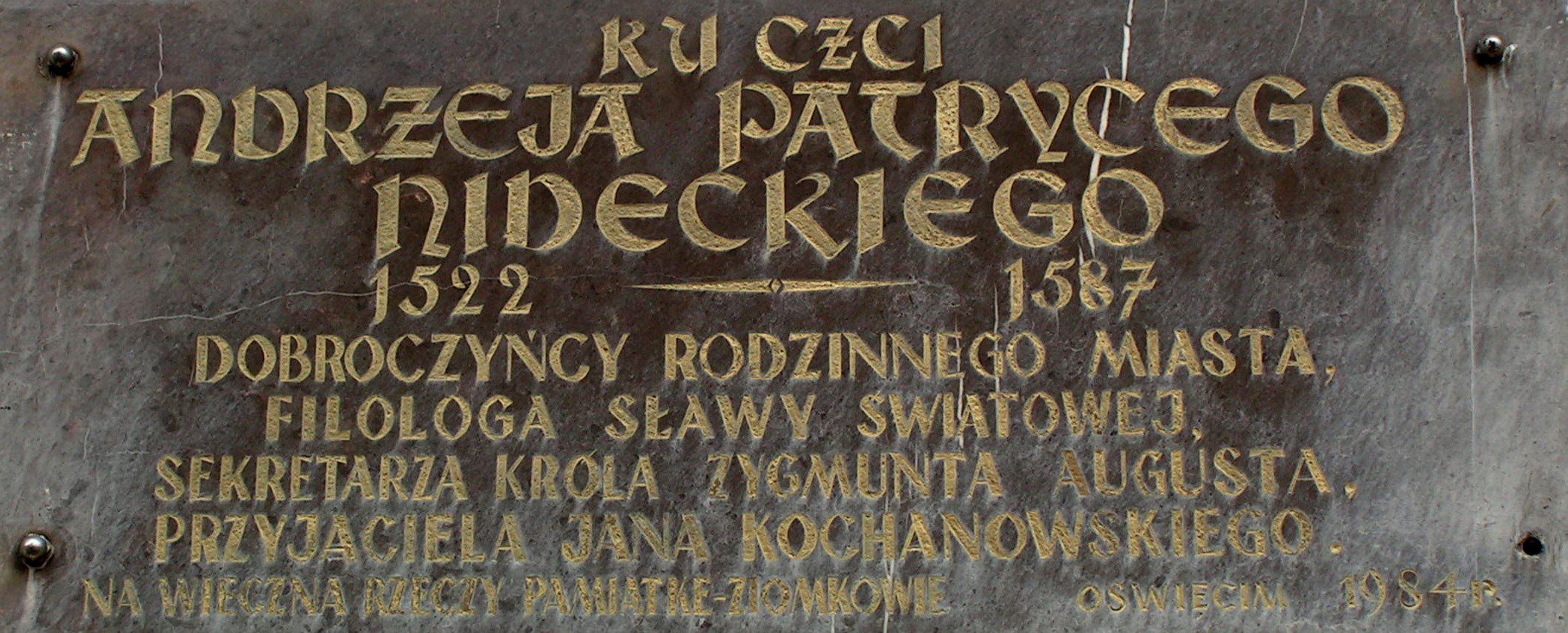 A plaque on Plebańska Street in Oświęcim dedicated to Andrzej Patrycy Nidecki.